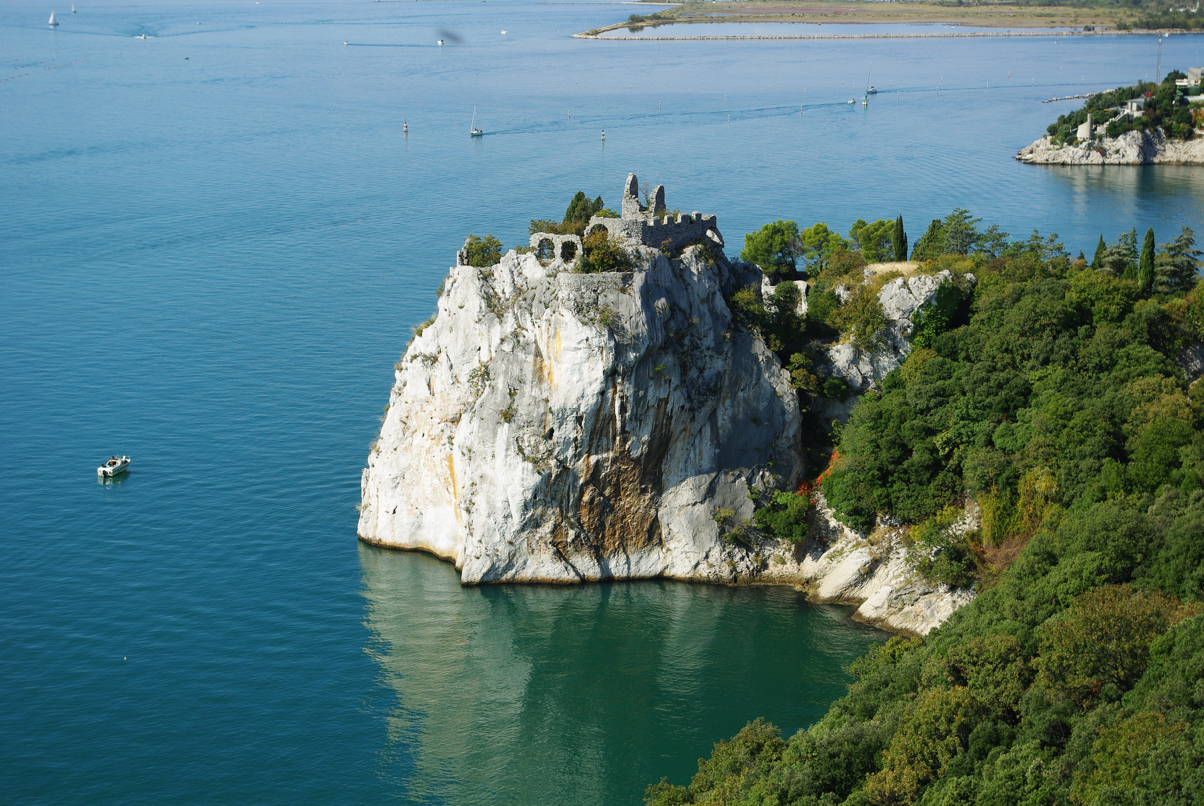 The peninsula near castle Duino, Trieste, Italy